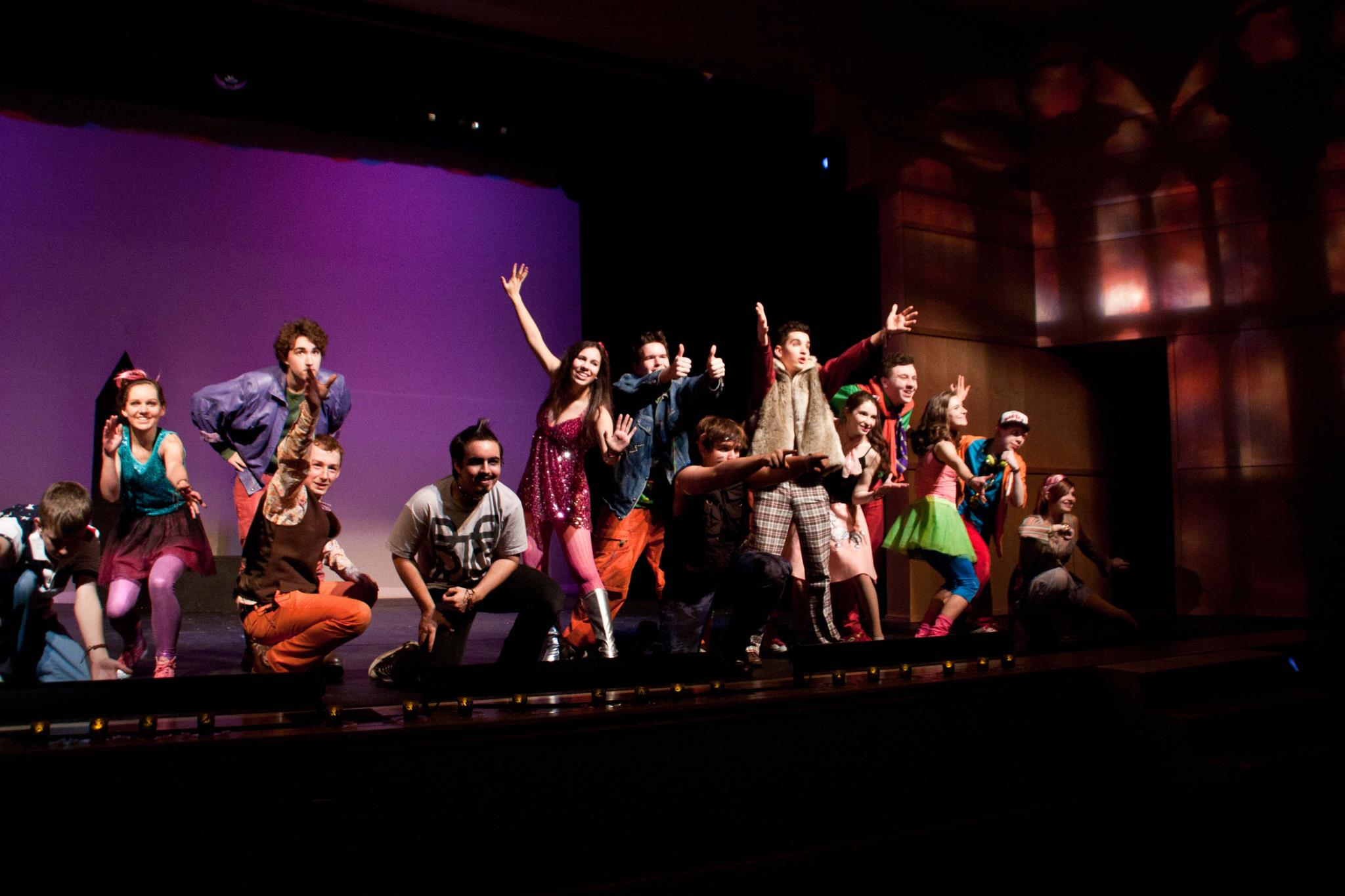 2013 Footloose Production by the Xaverian Theater Arts Program